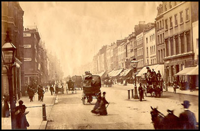 Oxford Street in 1875, looking west from the junction with Duke Street. The buildings on the right are on the future site of Selfridges.